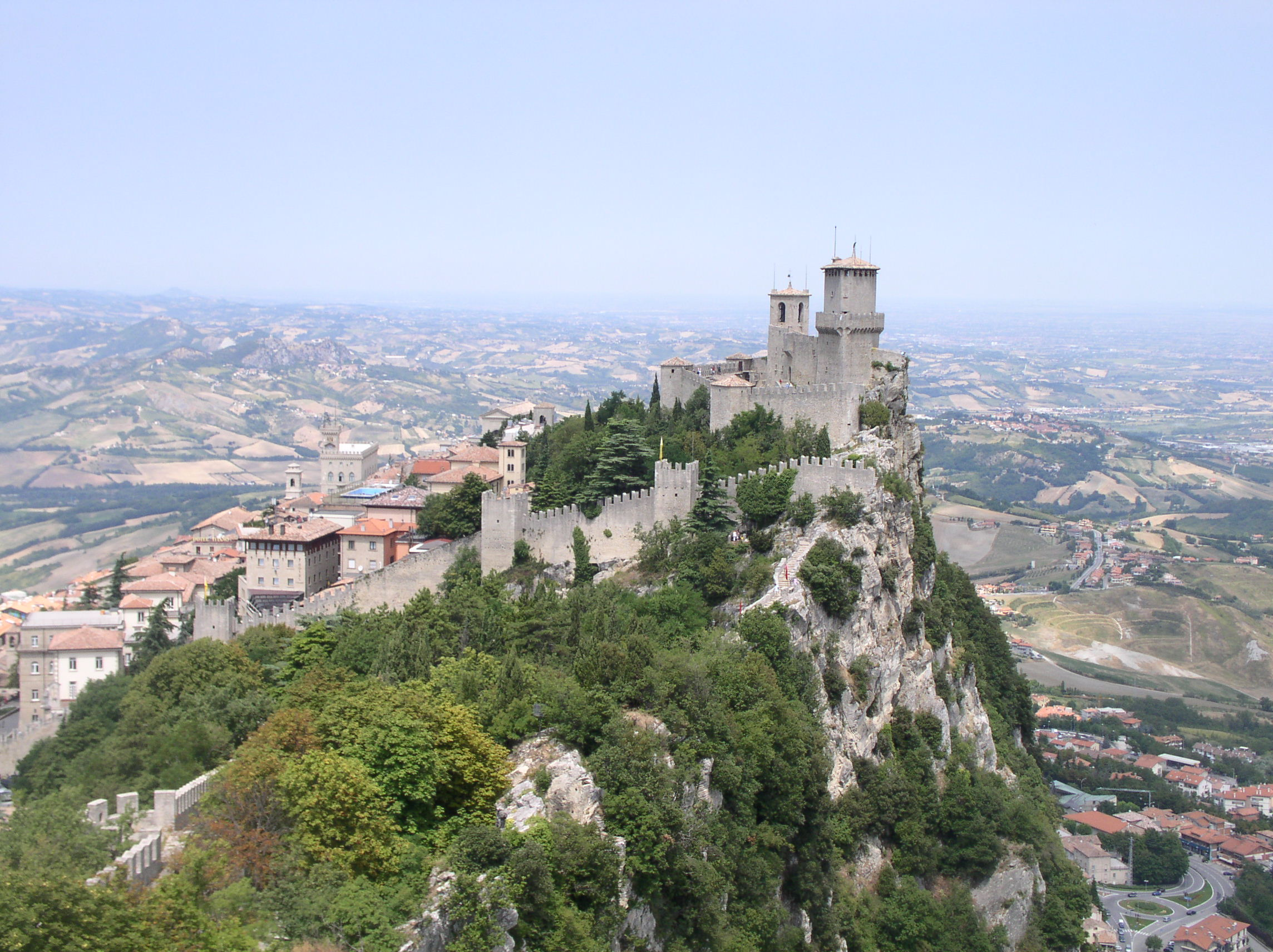 Guaita tower in San-Marino